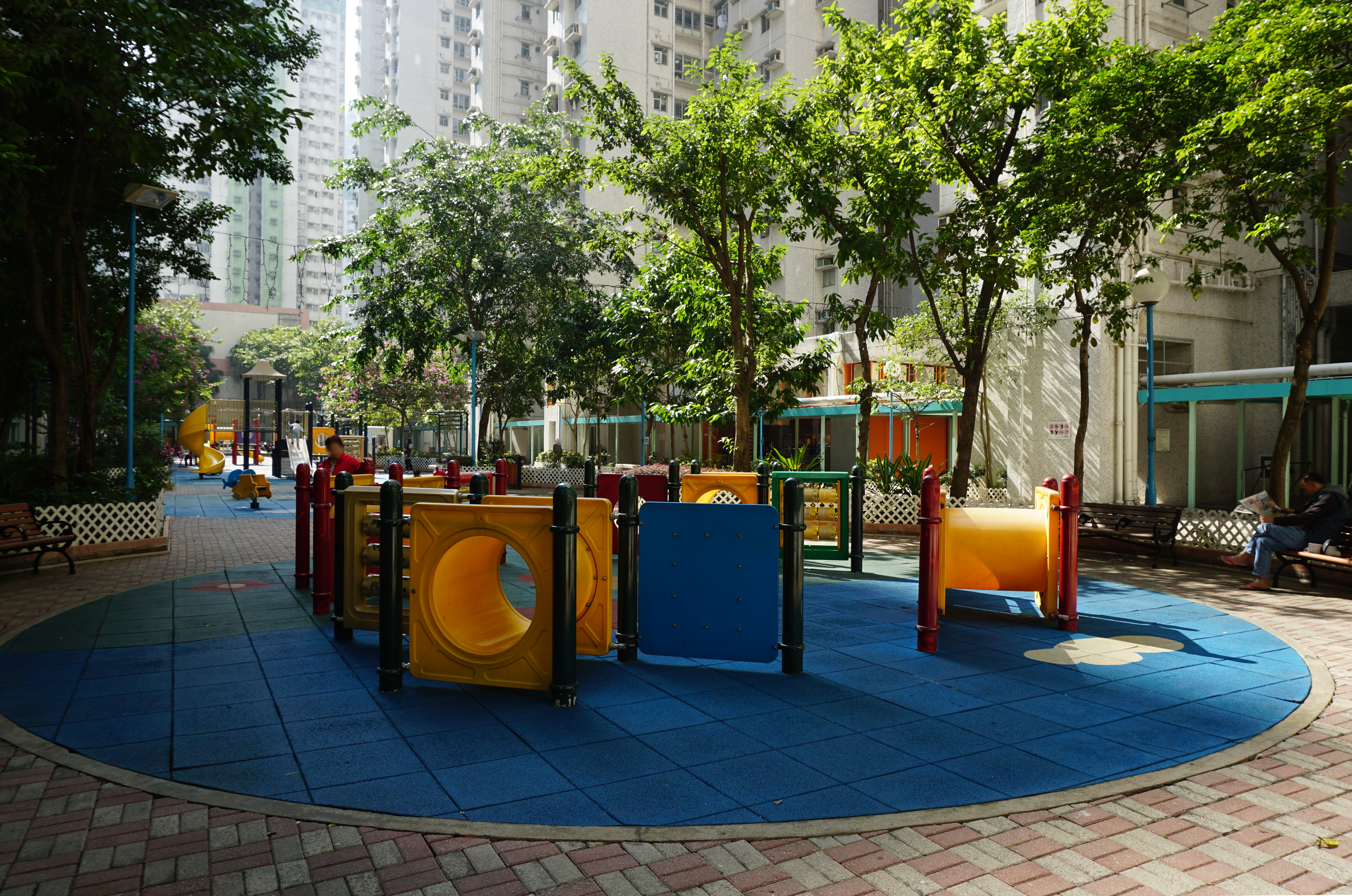 Lung Mun Oasis in Tuen Mun, Hong Kong.